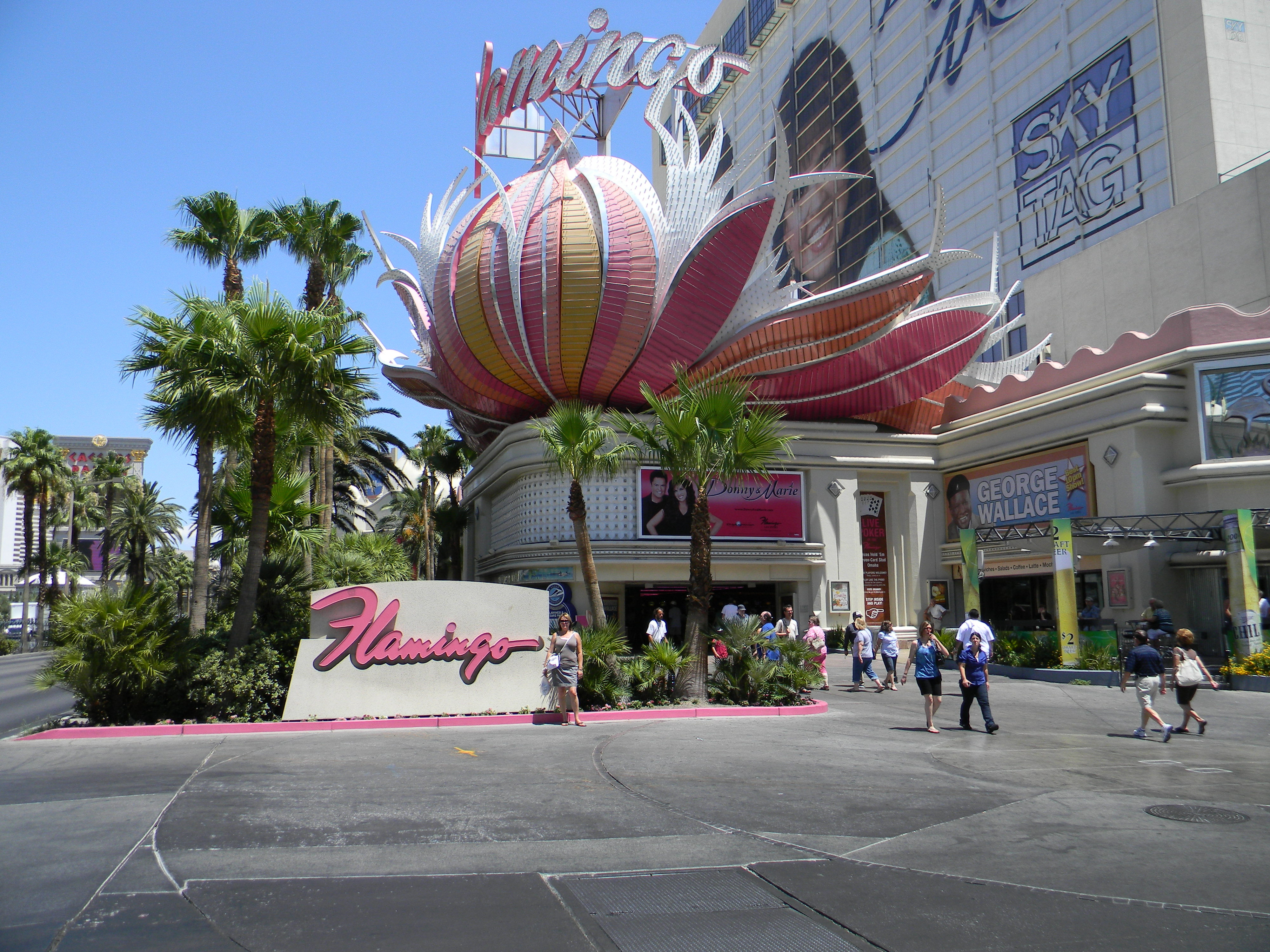 Flamingo hotel (Las Vegas) The Strip, Front